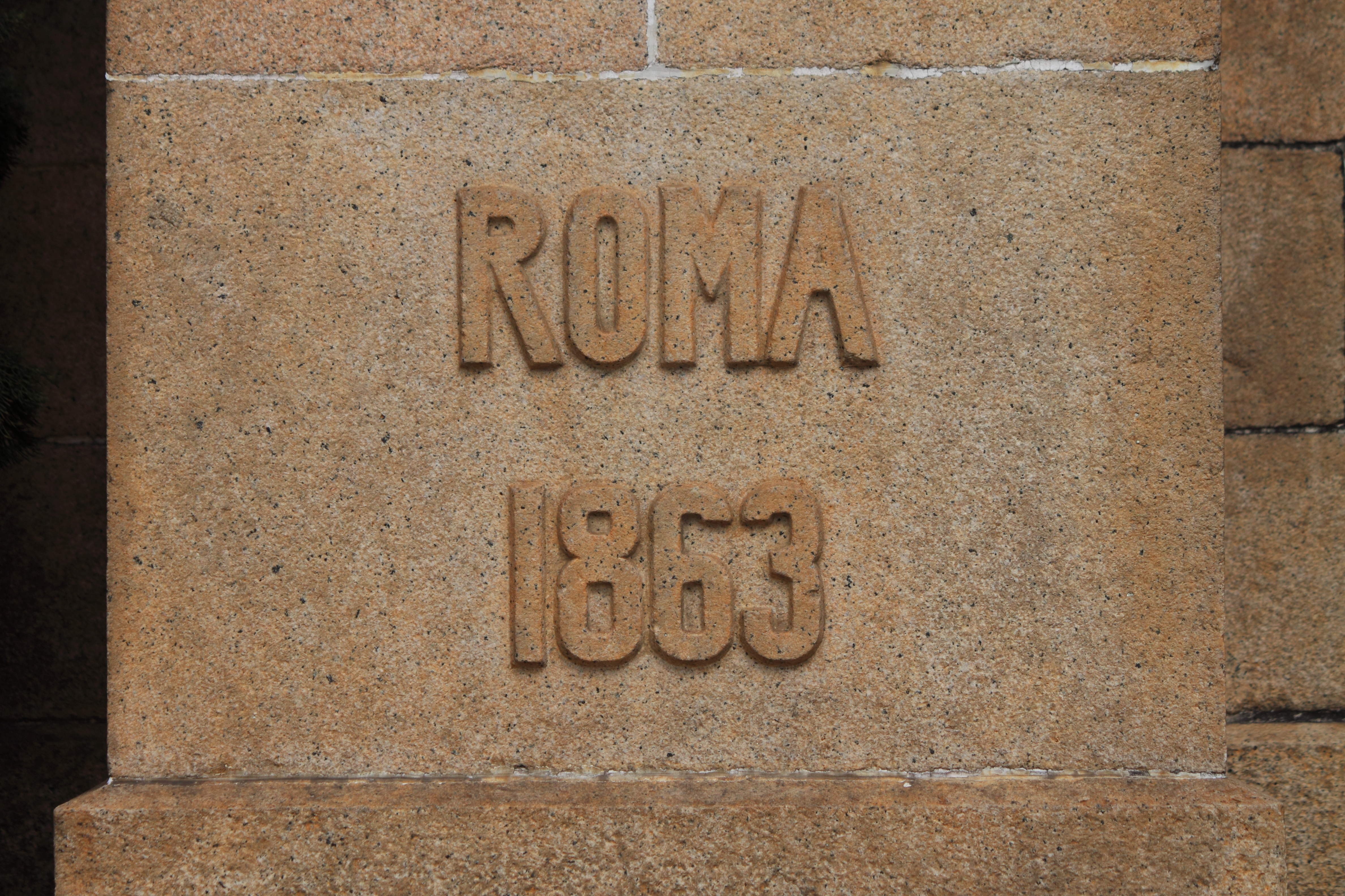 Sacred Heart Cathedral of Guangzhou，in Guangzhou, Guangdong, China.